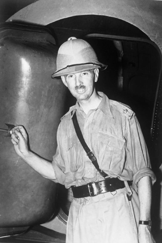 Lieutenant General Percival leaving a plane on his arrival in Singapore as the new GOC Malaya